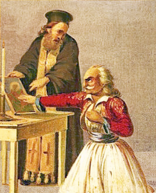 Painting of D. Tsokou (1849) : "The Oath" (extract)